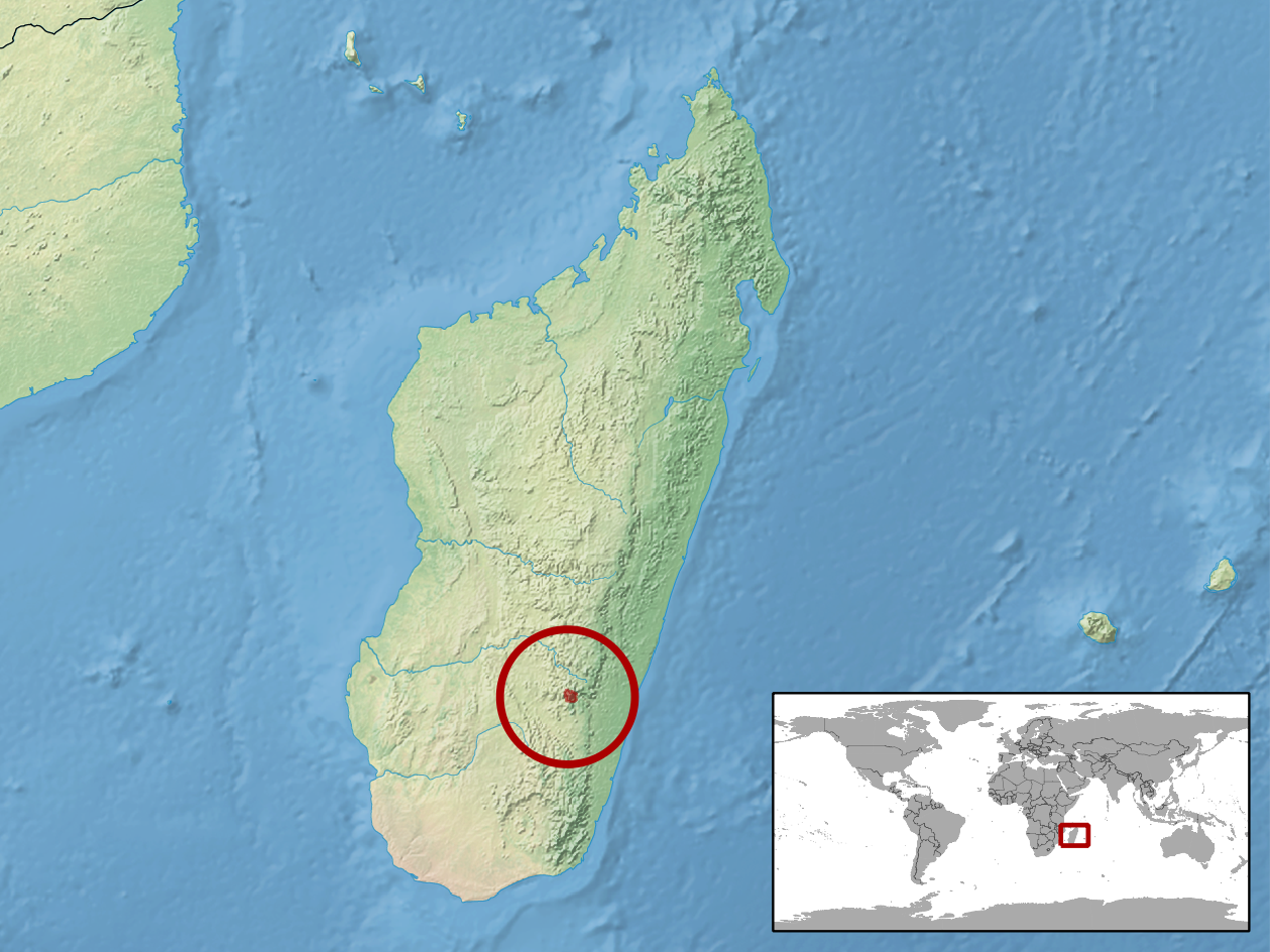 geographic distribution of Lygodactylus intermedius (Native: Madagascar)